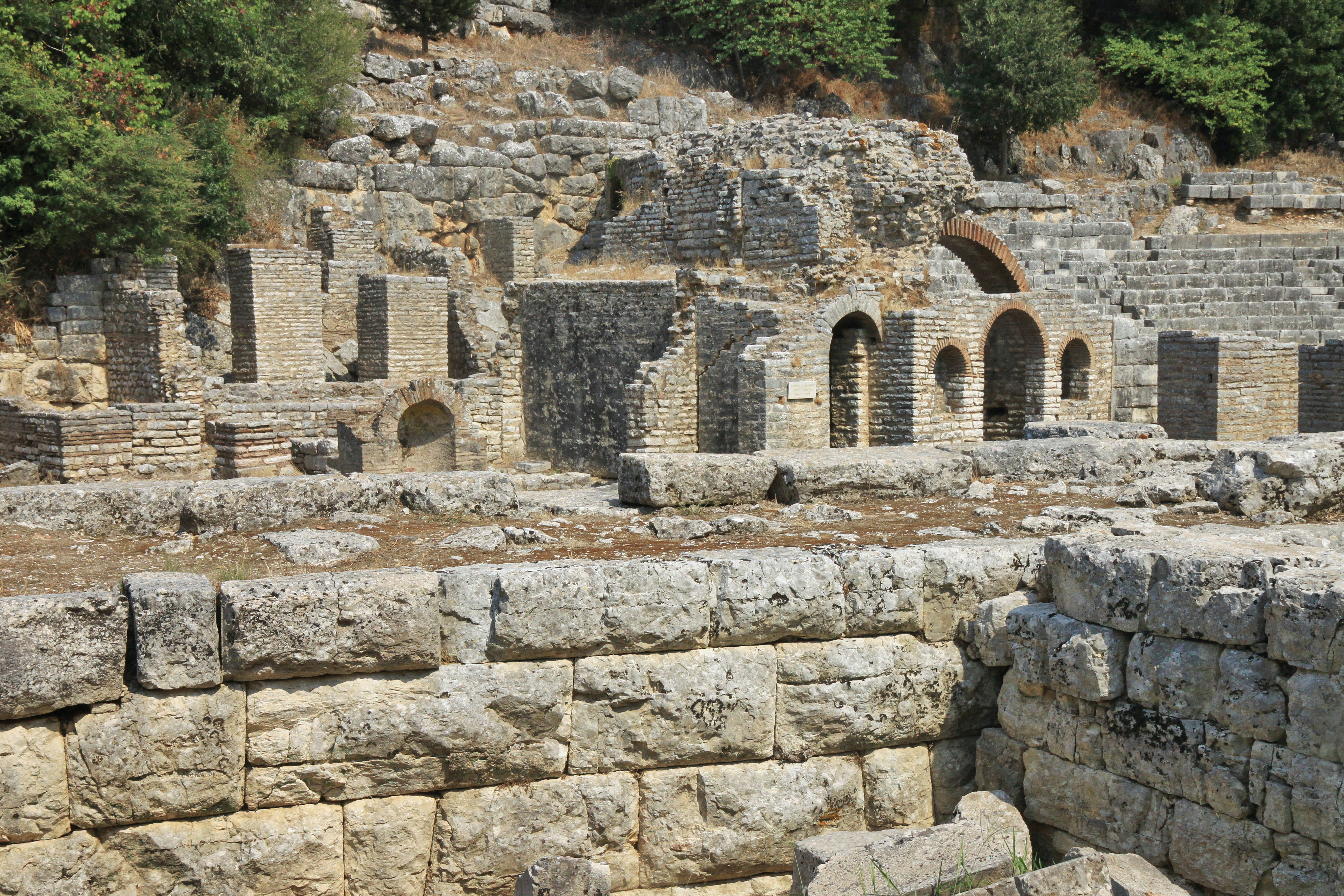 Prytaneion (left) and Temple and Thesauros of Asclepius, Buthrotum, Vlorë County, Albania.